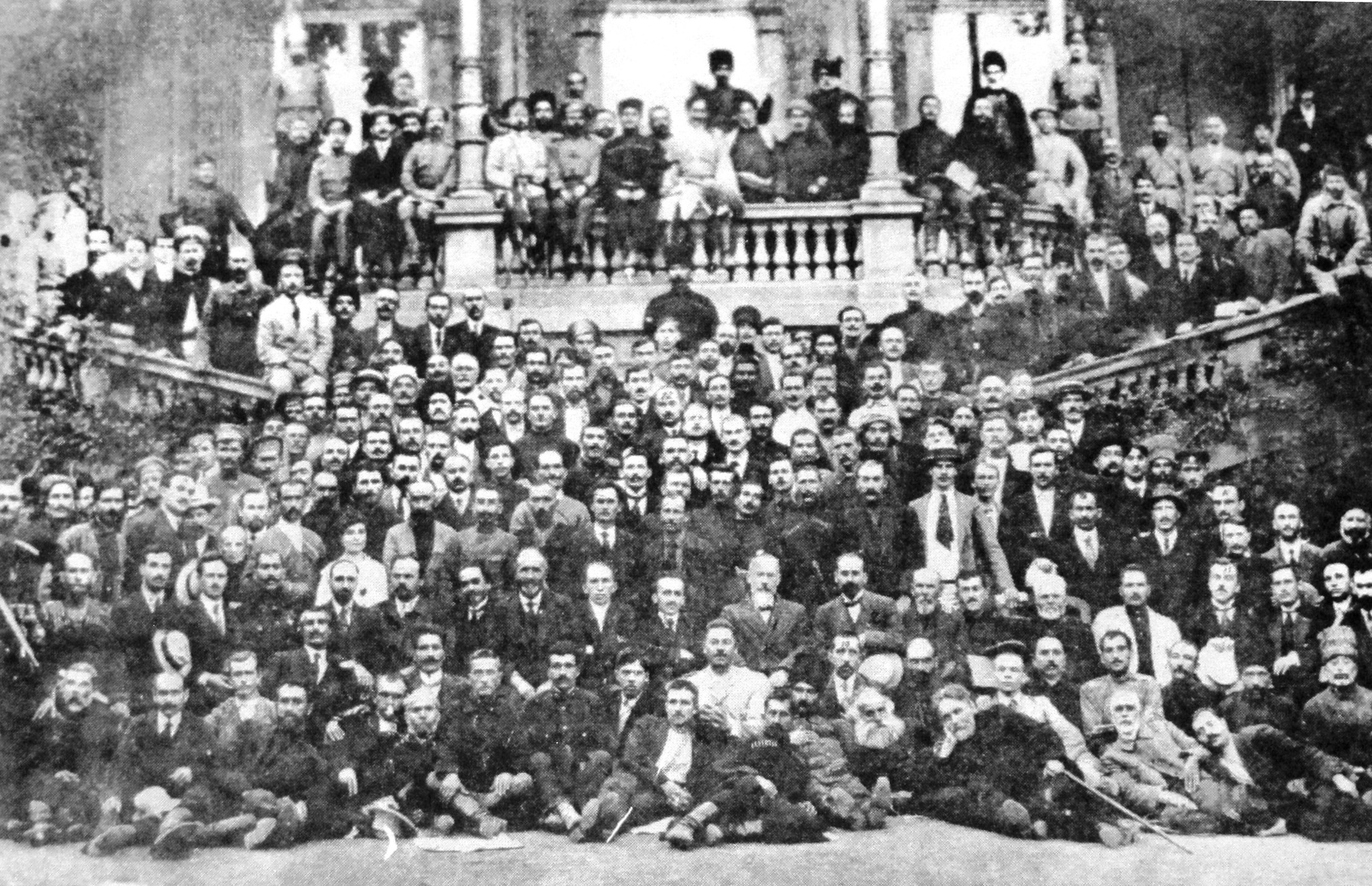 The First Regional Caucasian Soviet of Workers’ and Peasants’ Deputies, May 31, 1917. Sitting in the third row, tenth from the right with a white beard is Noe Zhordania. Fifth to his right is Akaki Chkhenkli; sixth to Zhorda- nia’s right, Noe Ramishvili. Silva Jibladze is fourth from the right in the first row with a cane.